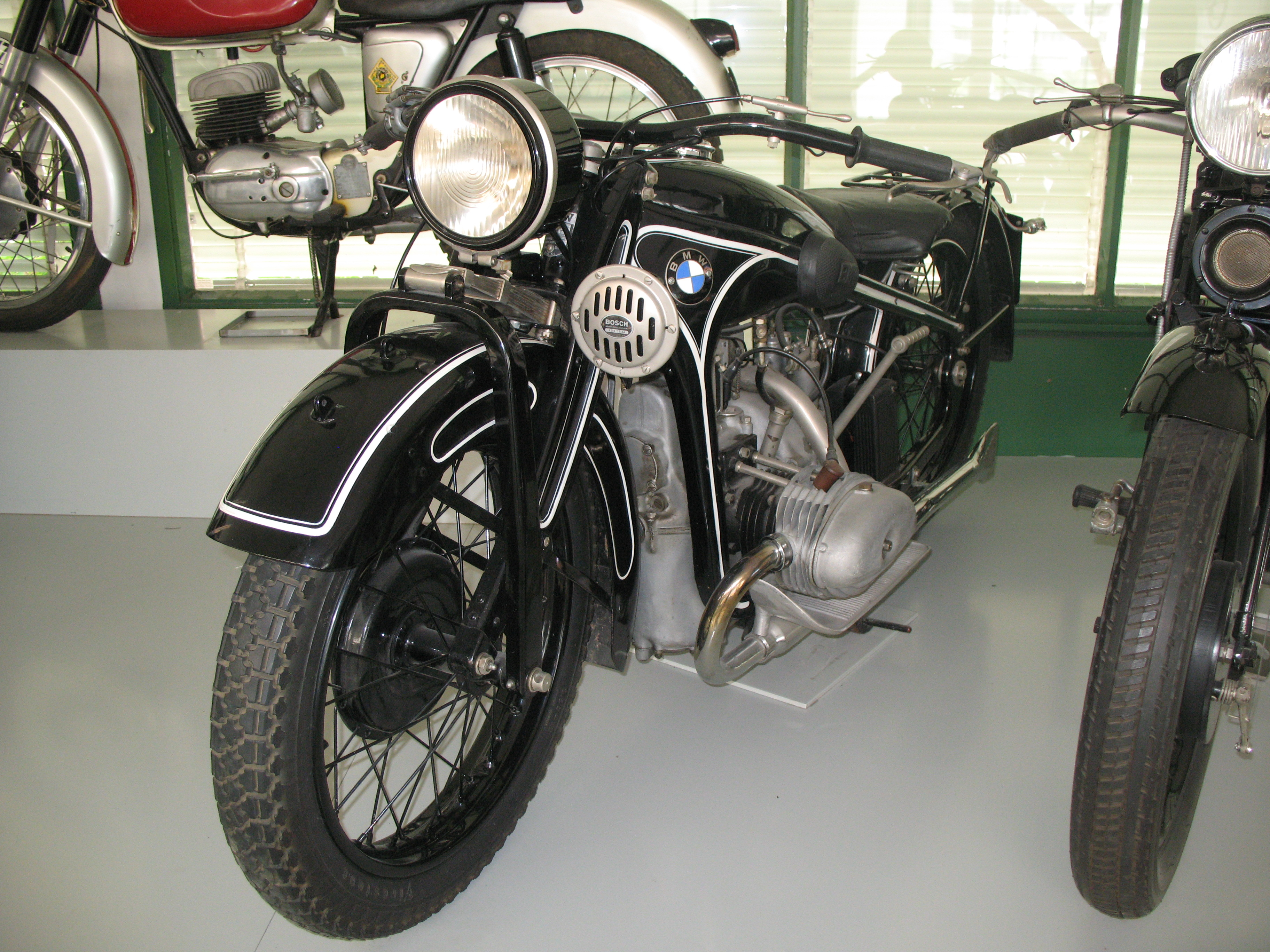 BMW R-16 in the Swiss Transport Museum, Luzern, Switzerland